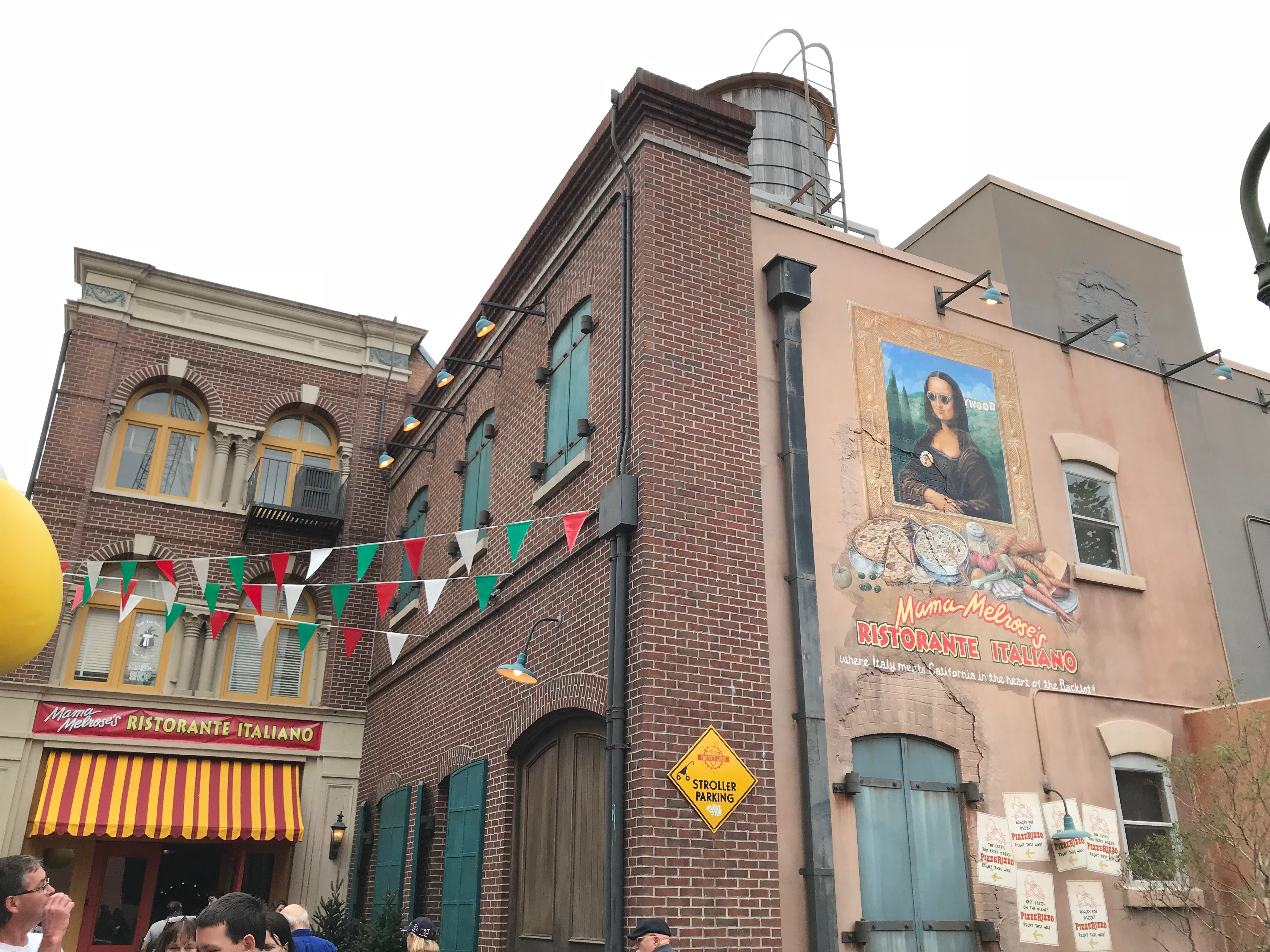 Mama Melrose's Ristorante Italiano at Disney's Hollywood Studios.